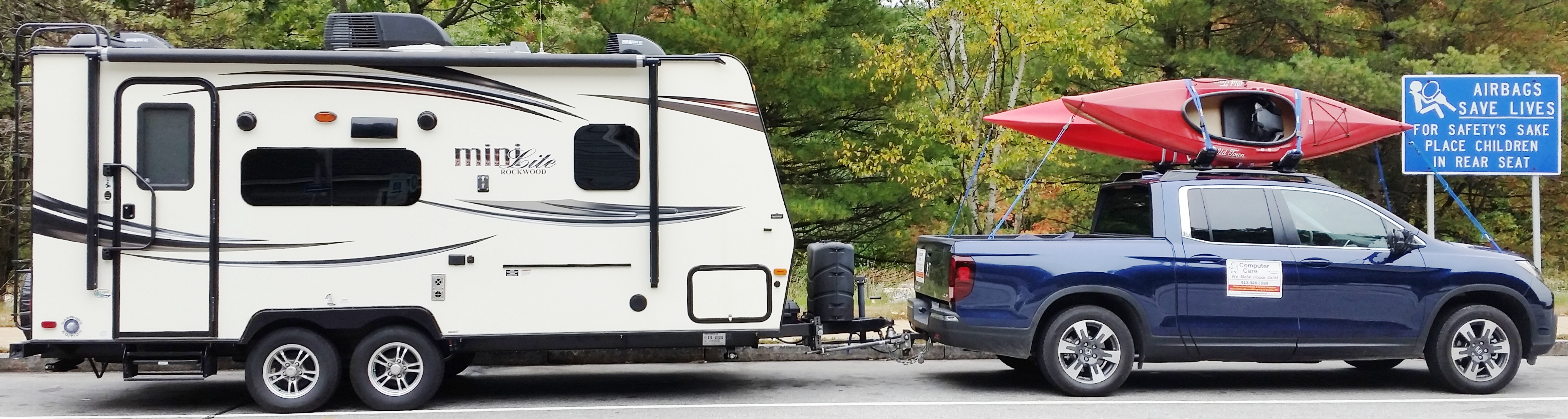 Cropped image of a 2017 Honda Ridgeline RTL towing a Rockwood Mini Lite 2109S travel trailer and hauling two kayaks